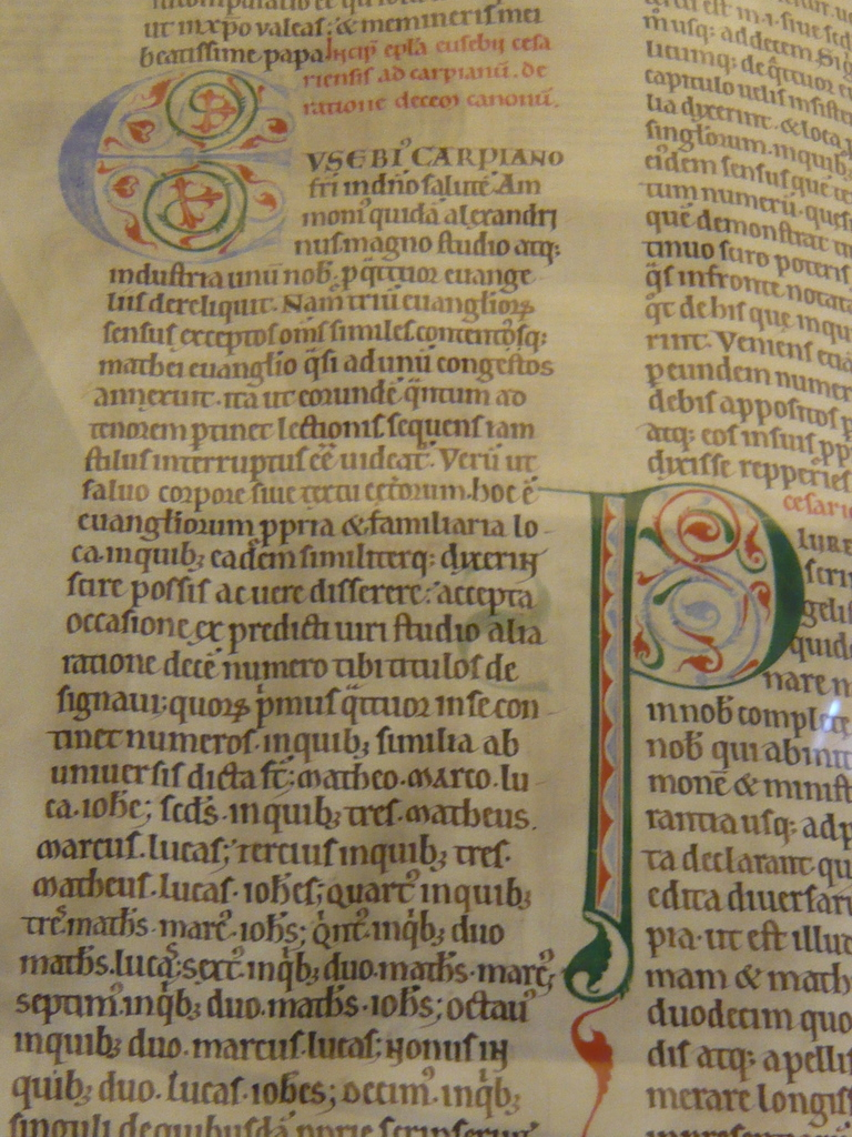 A page from the Lambeth Bible exhibited at the Maidstone Museum Kent.